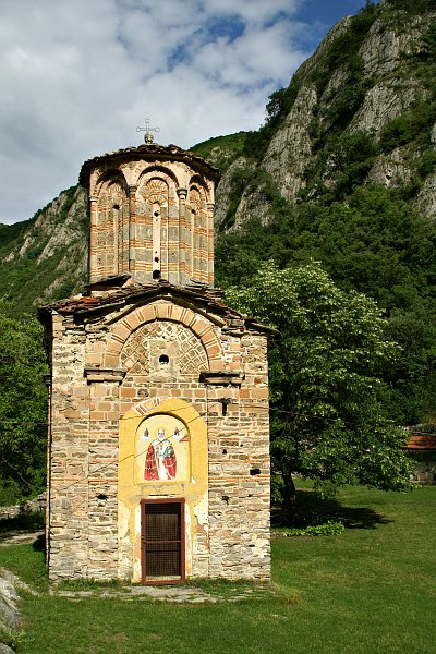 Church of Saint Nichola (Sveti Nikola Shishevski) at Matka, near Skopje